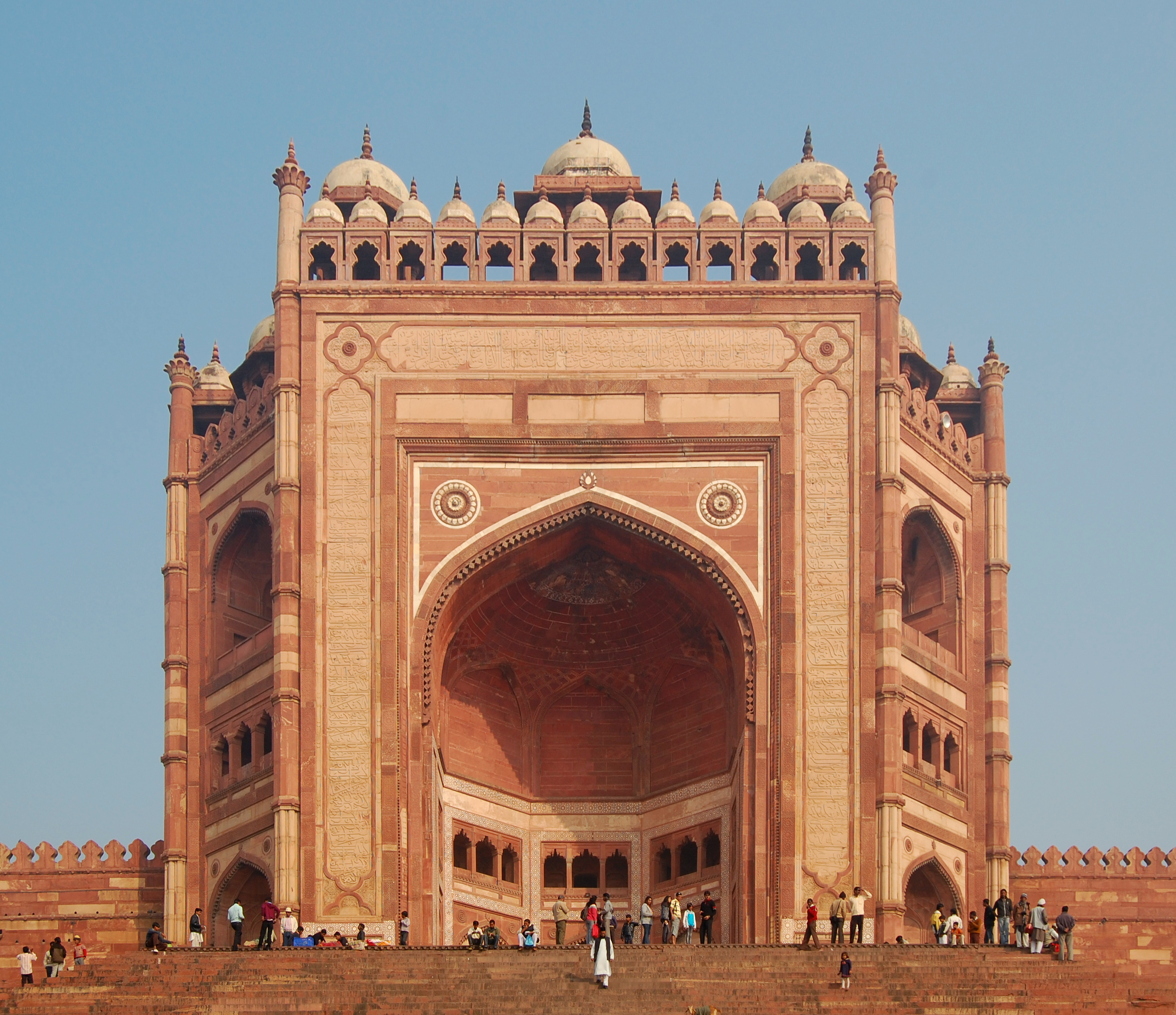 Buland Darwaza gate to Jami Masjid mosque, Fatehpur Sikiri, India.